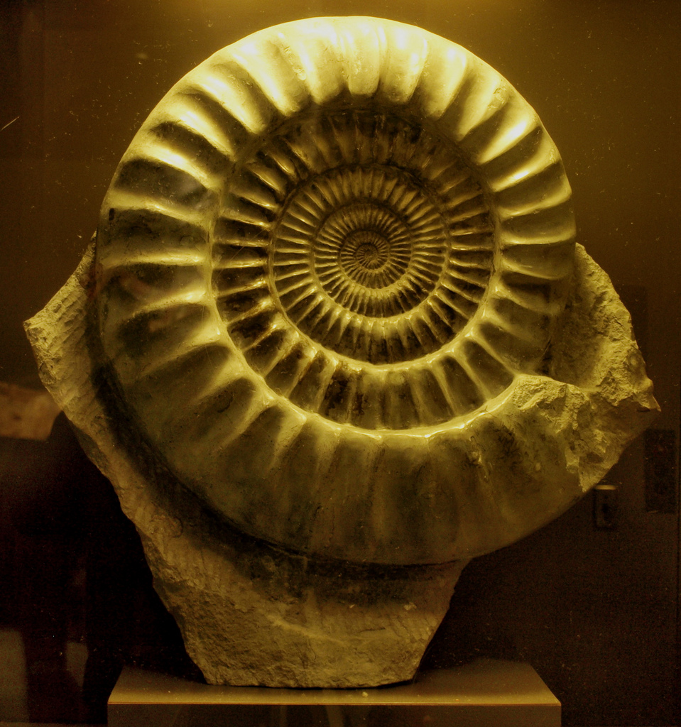 Ammonite, Arietites bucklandi (Jurassic, Meurthe-et-Moselle, Nancy, France) HMNS 489 Wikipedia Loves Art at the Houston Museum of Natural Science This photo of item # 489 at the Houston Museum of Natural Science was contributed under the team name "Kamraman" as part of the Wikipedia Loves Art project in February 2009. Houston Museum of Natural Science The original photograph on Flickr was taken by donvega—please add a comment to the original Flickr page whenever a use has been made on Wikipedia or another project. Project galleries on Flickr: this institution, this team